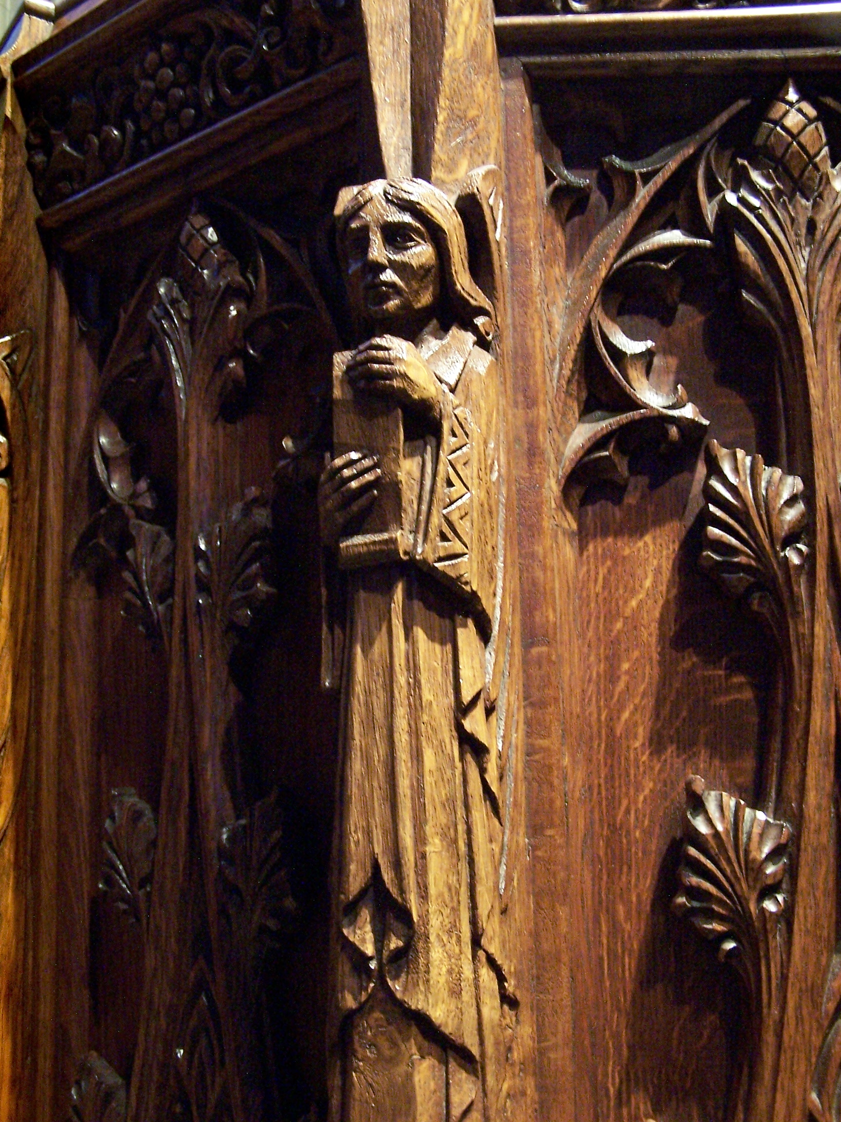 The carving in the chancel was designed by Charles Marcus Osborn, formerly in the employ of Ralph Adams Cram. While in Pittsburgh for the Heinz Chapel work he was also designing the chancel furniture for Shadyside Presbyterian Church's 1938 sanctuary remodeling. This is according to a letter in the Shadyside archives from a member who was a distant cousin.